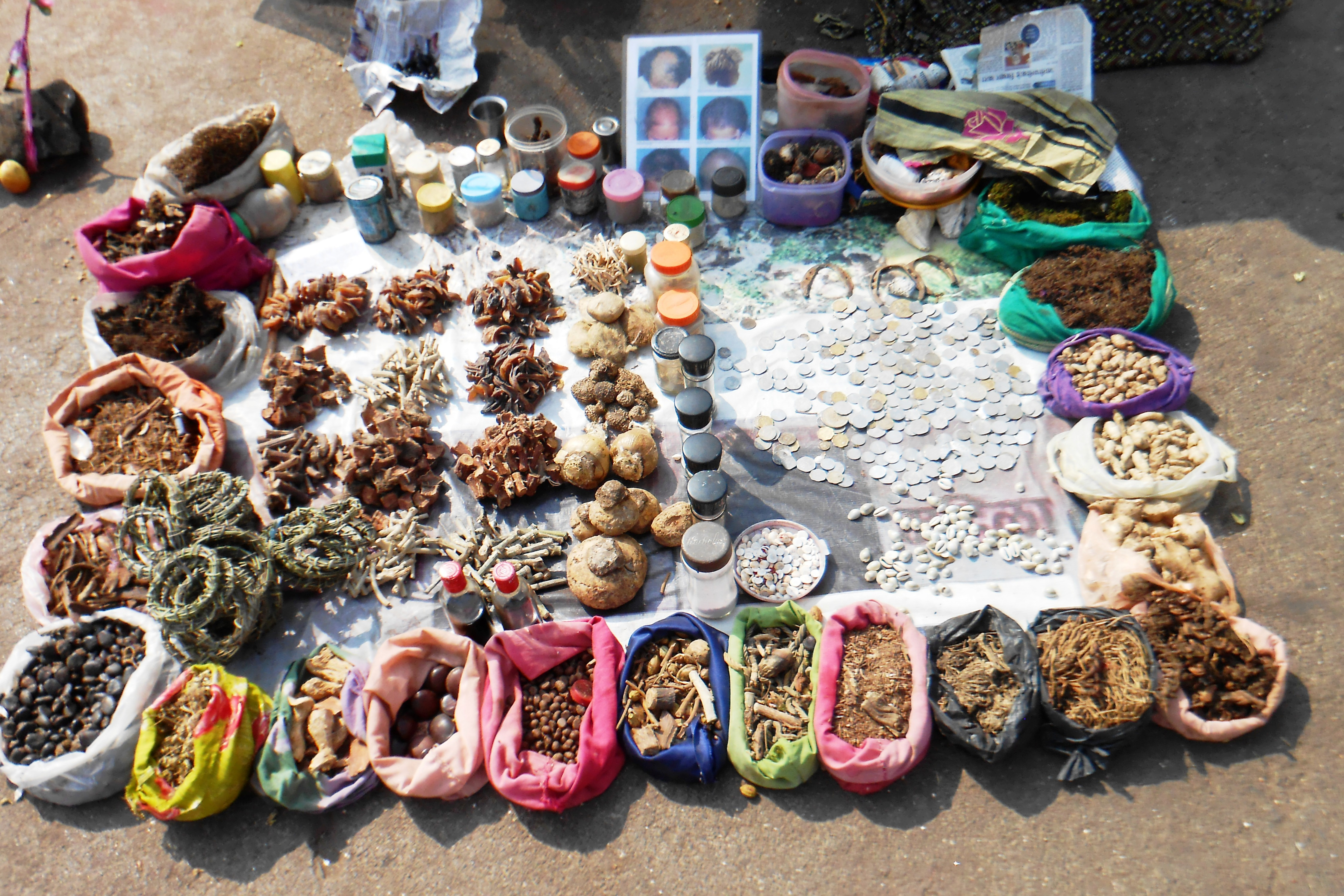 Herbal and devotional articles in street sale in Nashik, Maharashtra, India